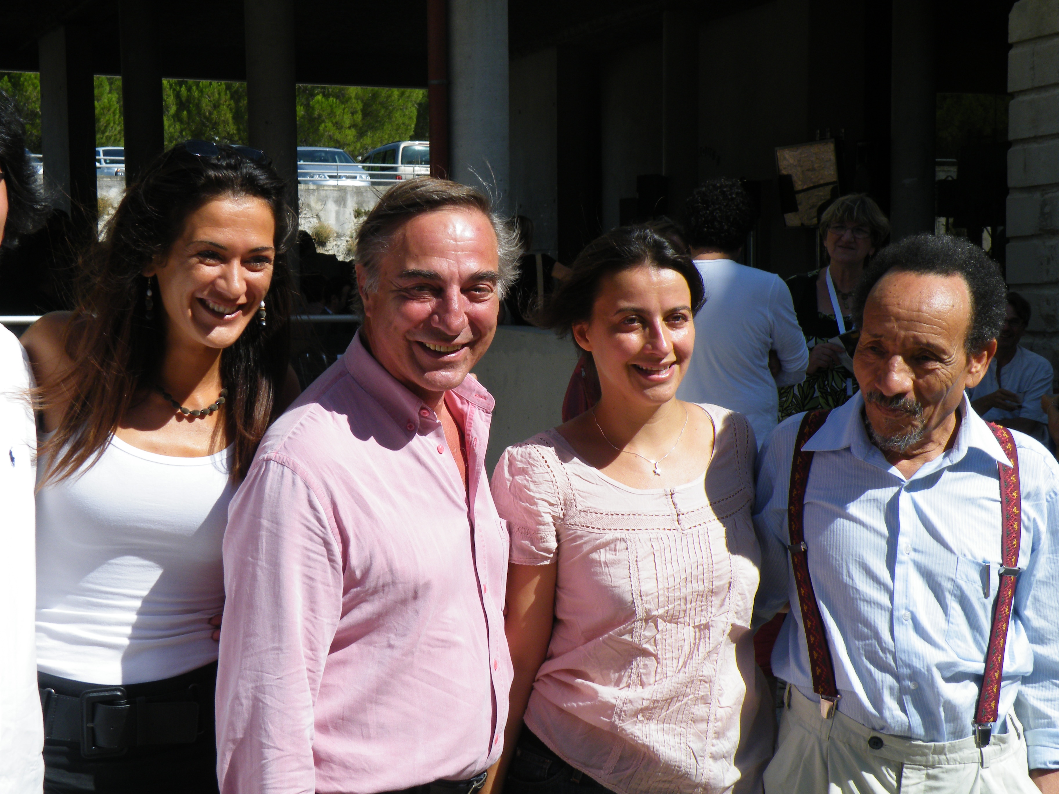 From left to right: Sandrine Bélier, Allain Bougrain-Dubourg, Cécile Duflot and Pierre Rabhi.